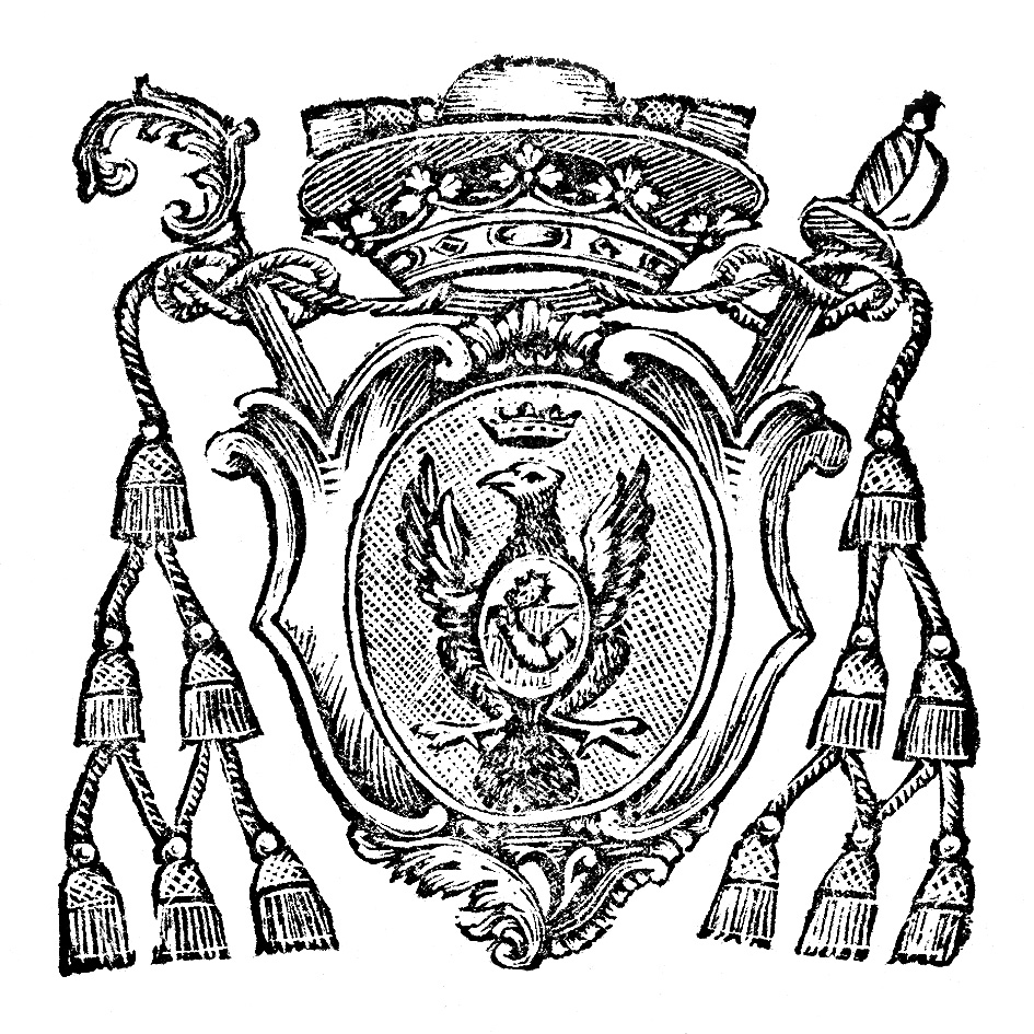 Coat of arms of the bishop of Asti Paolo Maurizio Caissotti (1762 - 1786)